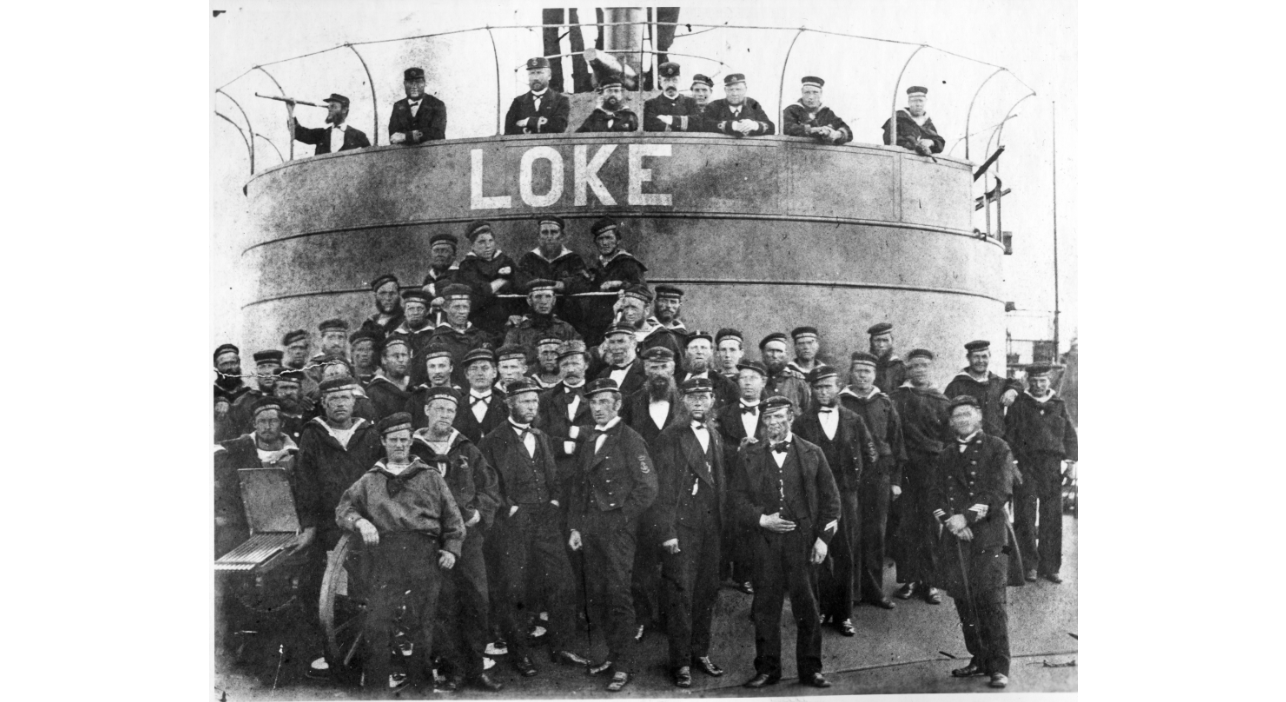 Crew of the swedish monitor HSwMS Loke in 1880